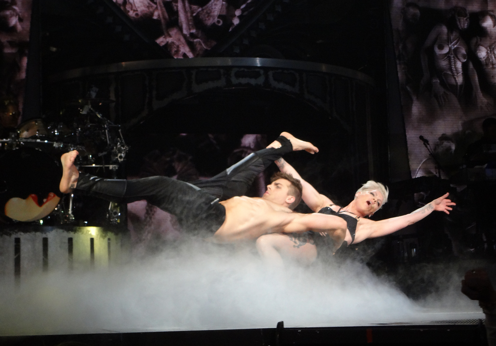 P!nk performing "Try" at a concert in Ohio